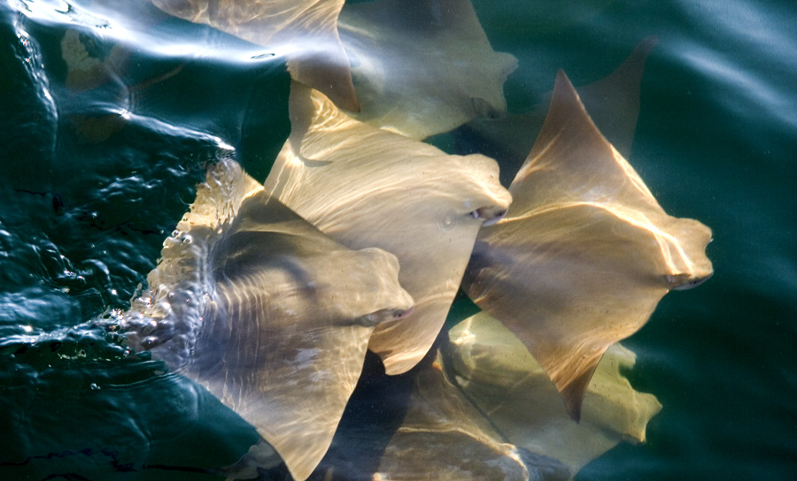 Photo of a school of Golden Cownose Rays (Rhinoptera steindachneri) taken by Tom Giebel in the Galapagos Islands on Apr 28, 2006.